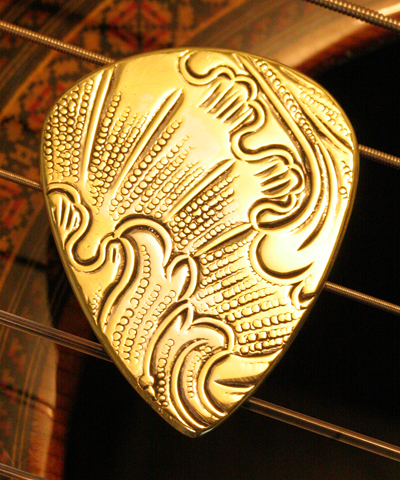 Brass guitar picks handcrafted by artisan picksmith Dustin Michael Headrick of Master Artisan Guitar Picks and Nashville Picks.